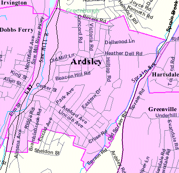 U.S. Census reference map for Ardsley, New York